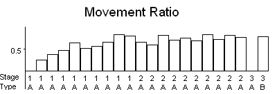 An example of the blocking effect. Notice the movement ratio at trial stage 3A. Graph made with Sniffy: The Virtual RatSniffy. Summary An example of the blocking effect. Notice the movement ratio at trial stage 3A. Graph made with Sniffy.